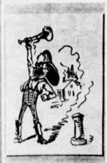 Cover art of a invitation to a 1891 Phoenix Fire Department given by James Monihon, "father" of the department, to a masquerade ball fundraiser